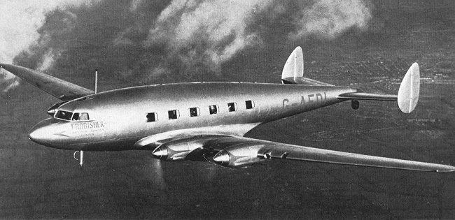 De Havilland DH.91 Albatross (G-AFDI) Frobisher of Imperial Airways in flight 1938